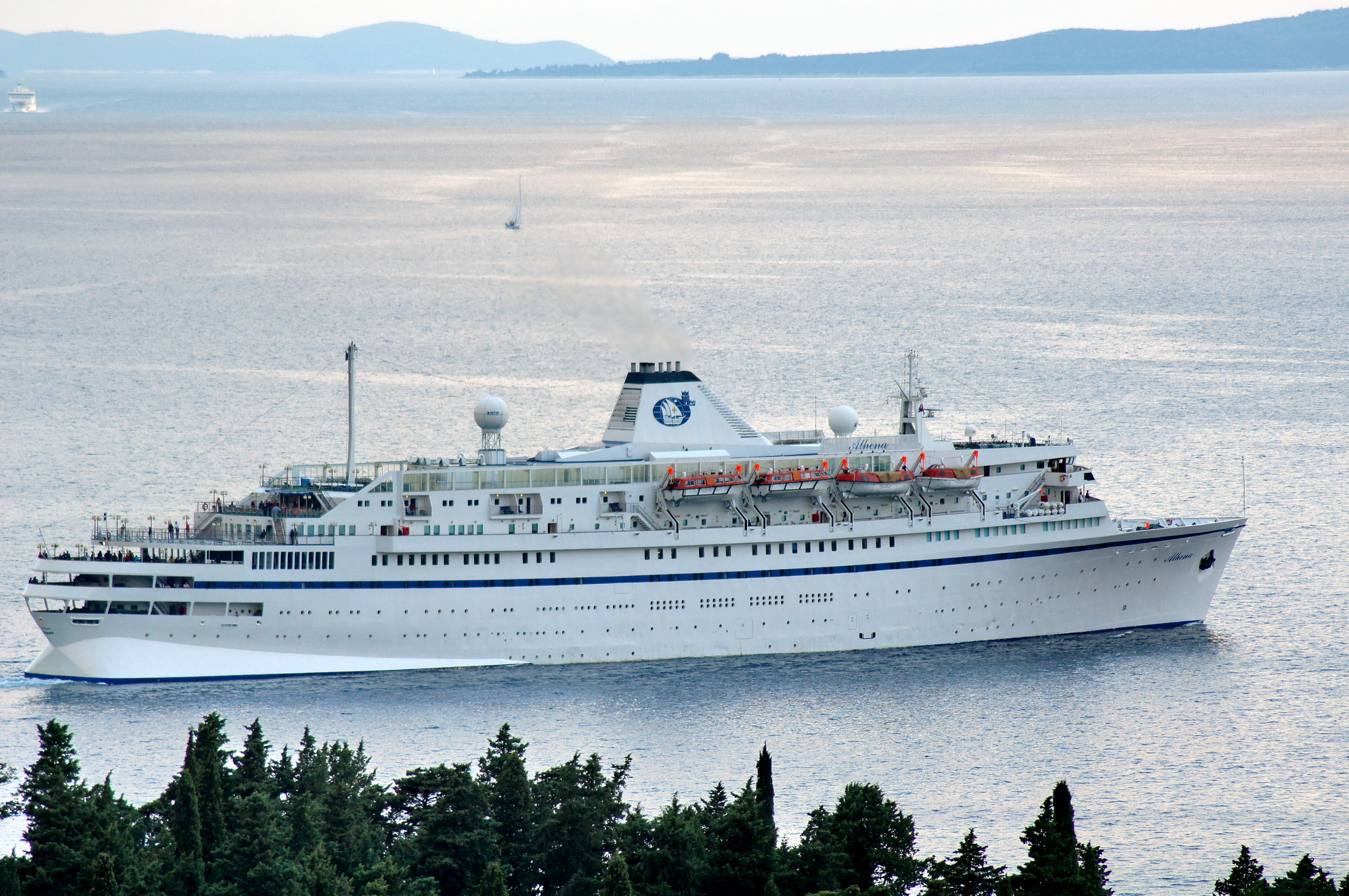 Athena (ship, 1948) IMO 5383304; in Split, 2011-10-22; departing